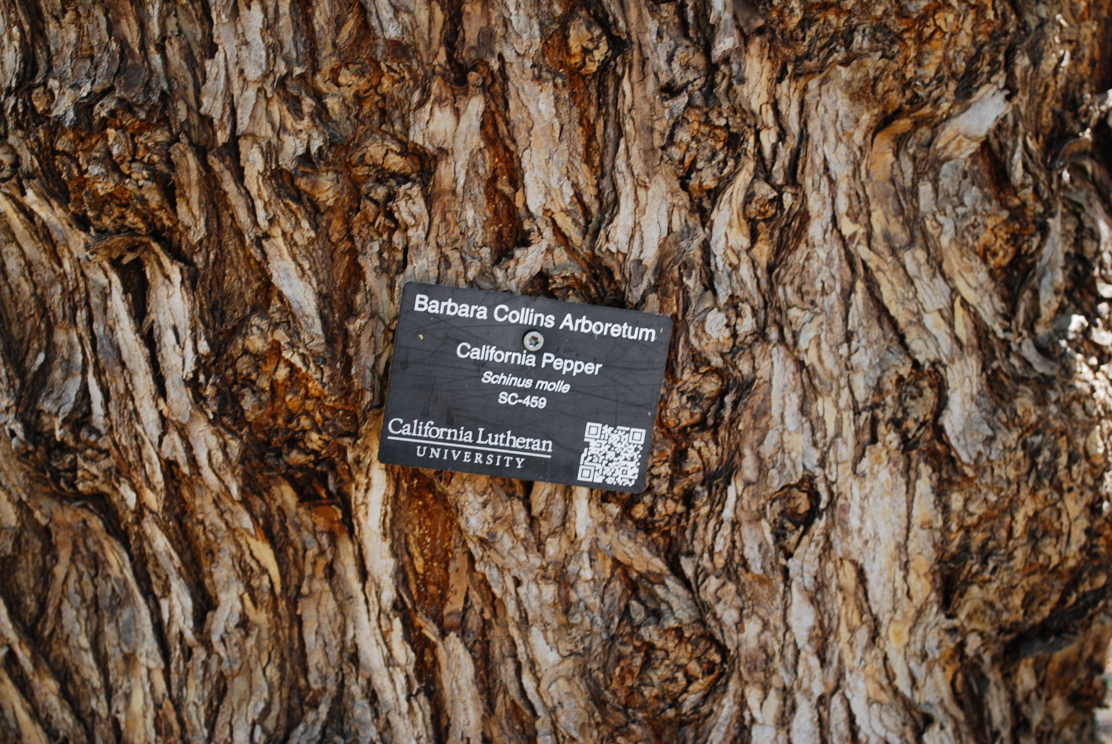 The Barbara Collins Arboretum at California Lutheran University (CLU) labels species found on campus.